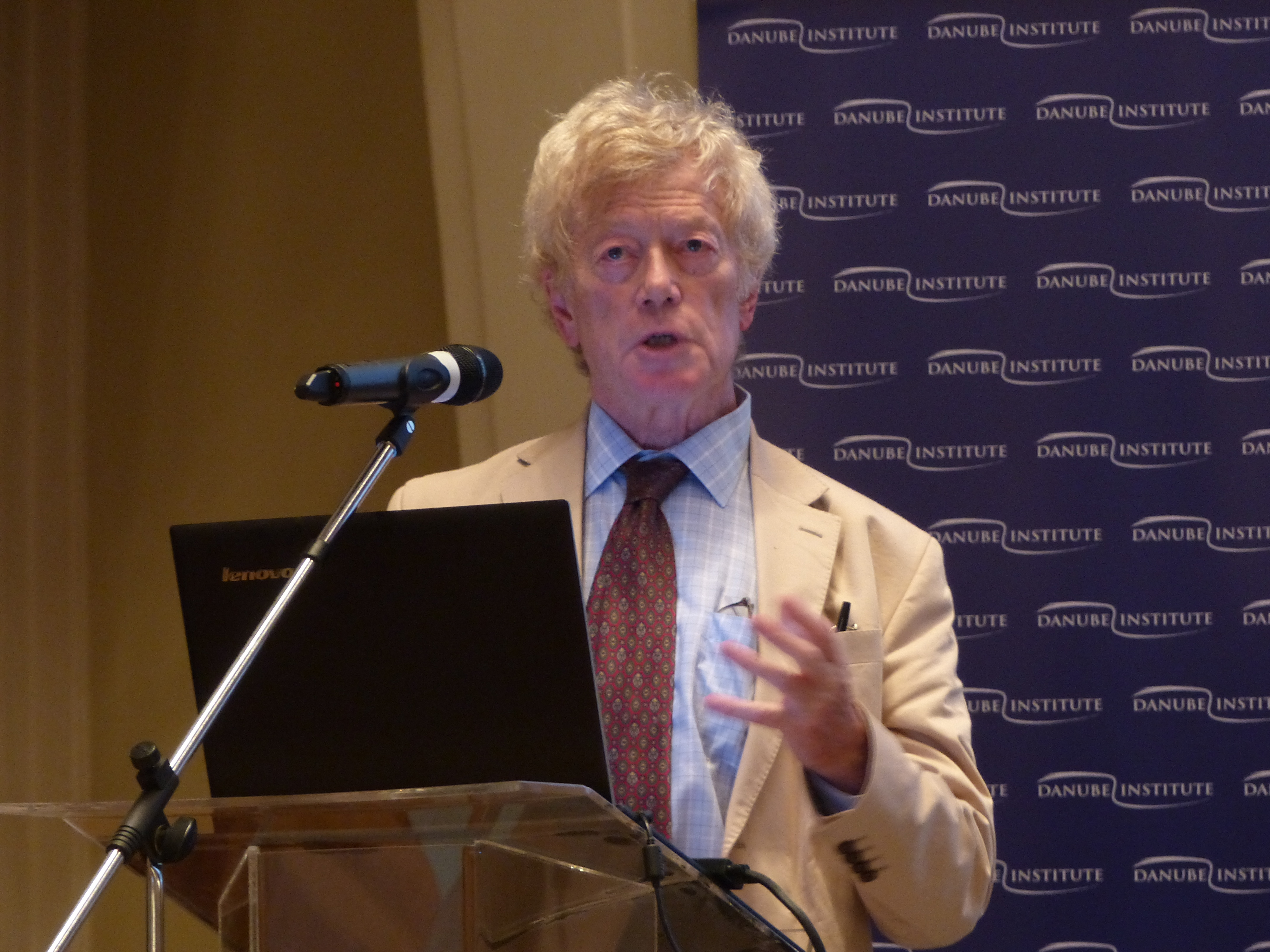 Sir Roger Scruton gave a lecture in Budapest: Europe and the Conservative Cause. Taken on the 19th of September, 2016. Centre for Humanities and Social Sciences